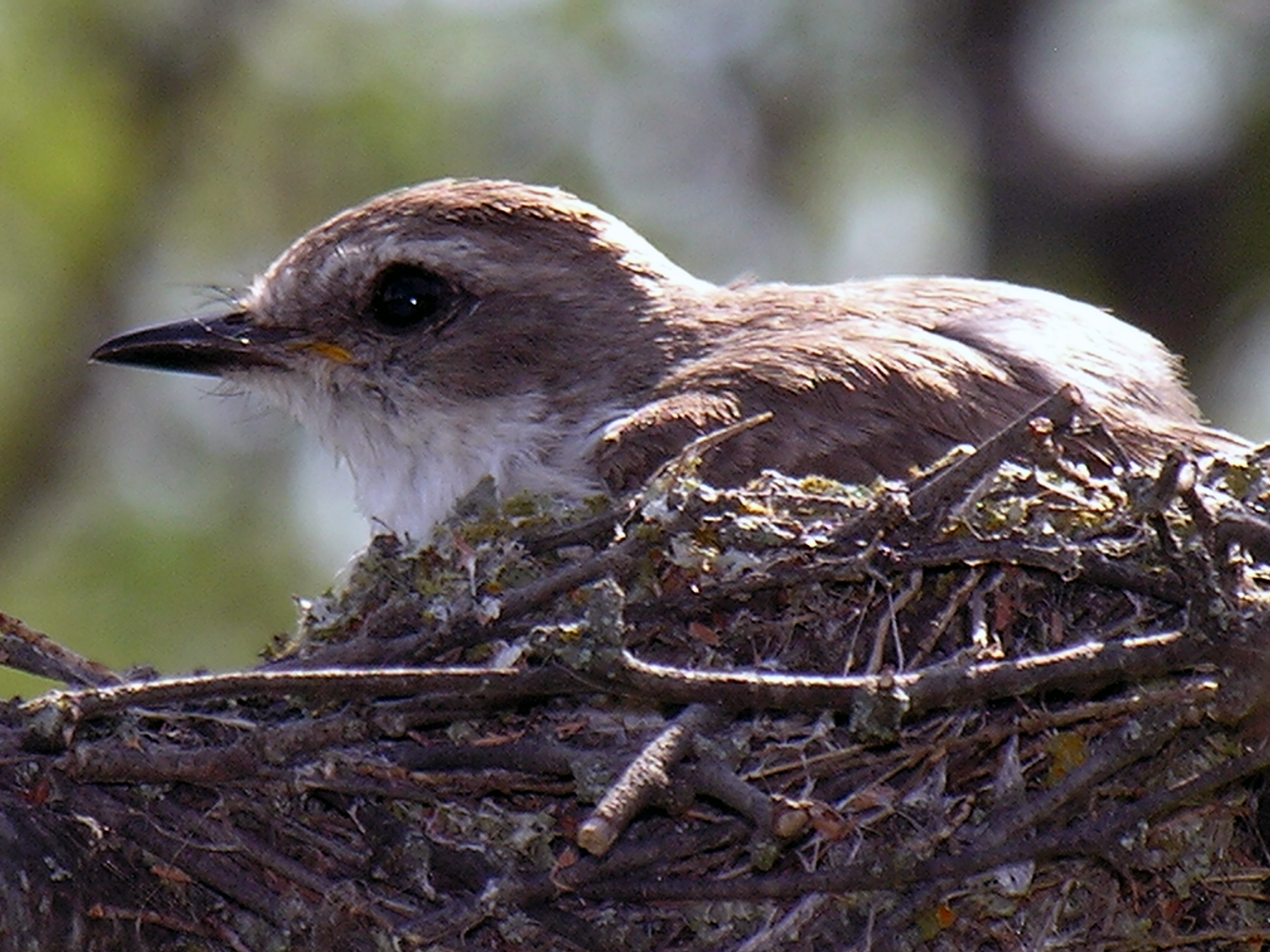 Vermillion Flycatcher female (Pyrocephalus obscurus), Lake Amistad, Del Rio, Texas